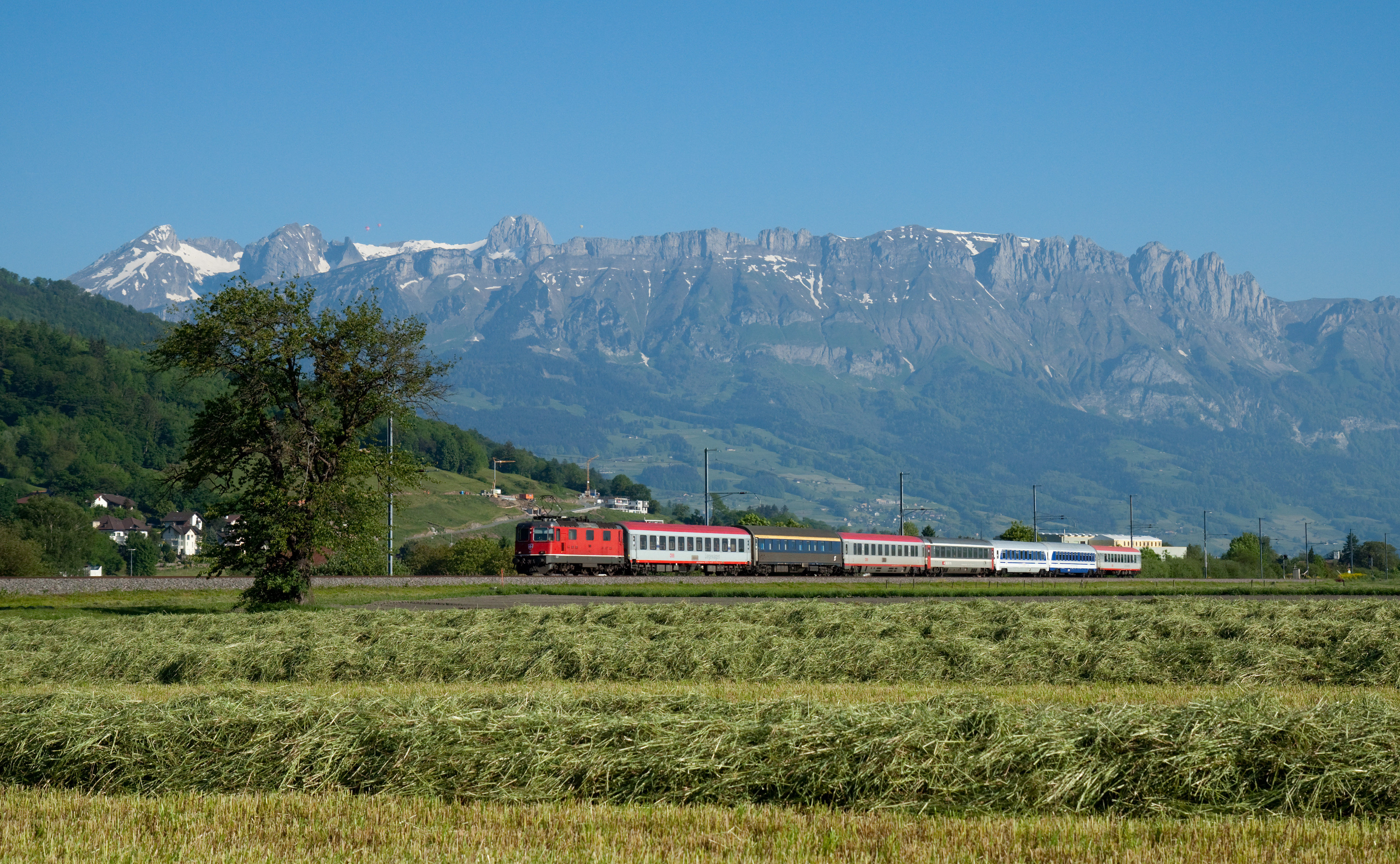 SBB Re 420 with the EuroNight "Zürichsee" from Zagreb/Belgrad to Zurich between Buchs SG and Sevelen, Switzerland.